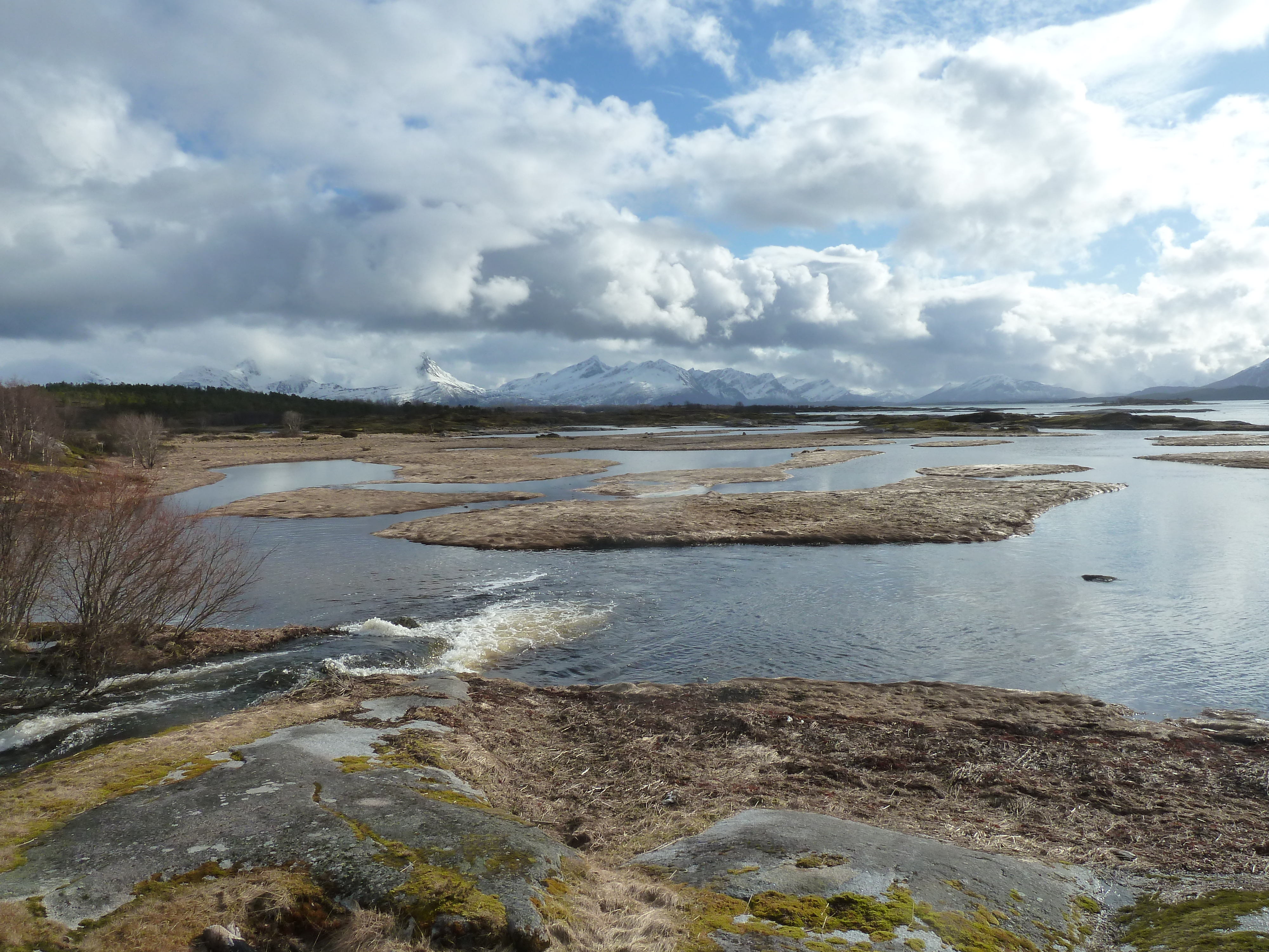 Steinslandsosen Nature Reserve in Hamarøy.